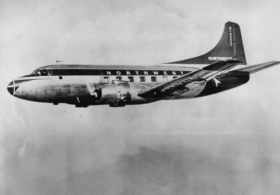 Northwest Martin 202